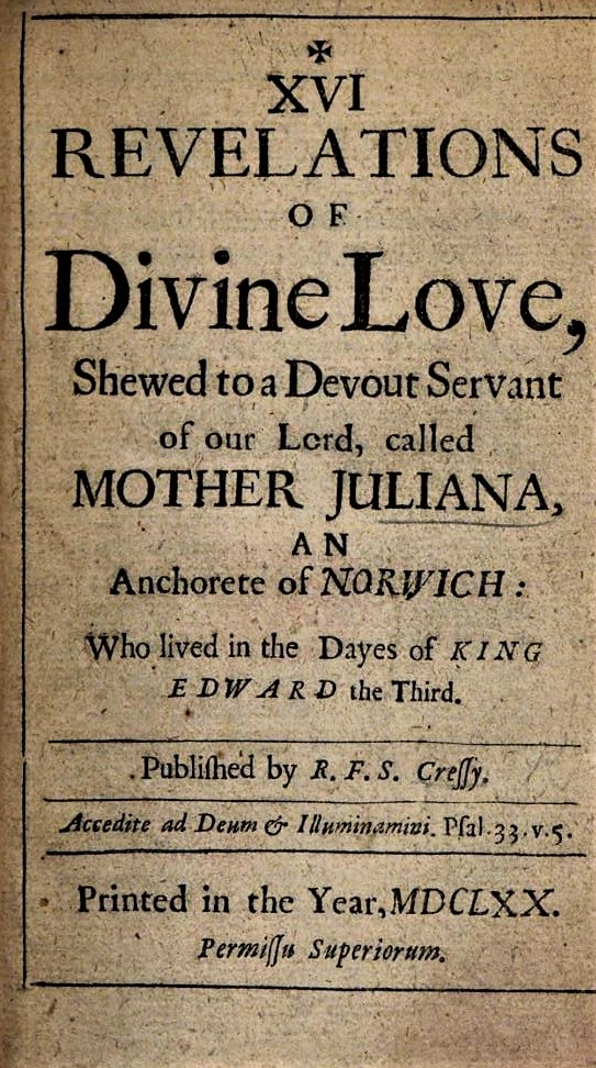 Revelations of Divine Love: title page from the British Library copy of the first publication